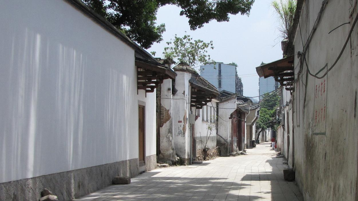 Gongxiang Lane in Fuzhou, one lane in the historic center of Fuzhou city.